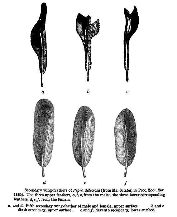 Modification of Manakin Pipra deliciosa = Machaeropterus deliciosus wings for sound production, from Darwin's - The Descent of Man